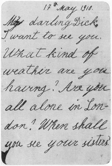 A letter written by Grand Duchess Anastasia to her cousin Lord Louis Mountbatten (Dicky), the son of her mother’s eldest sister Victoria: “17th May 1910. My darling Dick, I want to see you. What kind of weather are you having? Are you all alone in London? When shall you see your sisters?”